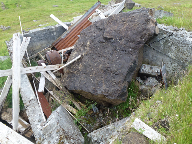 Rafstöðin Karlsskála Júlí 2014. Bjarg hefur hrunið á húsið og mölvað það.